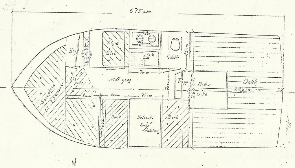 Sketch 1980 Karmøy